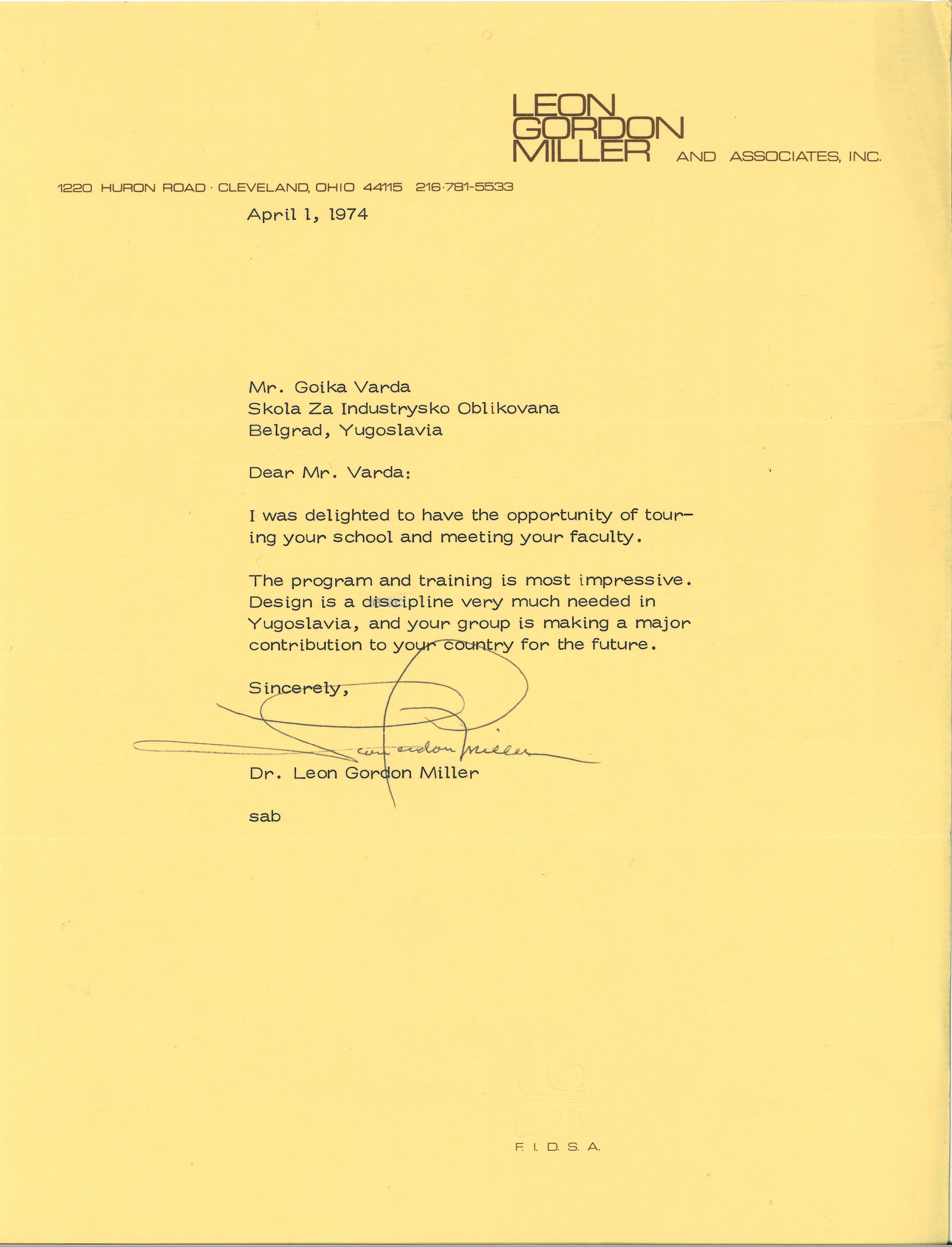 Letter from the dr Leon Gordon Miller to professor Gojko Varda about his visit to School of Design, from 1974.